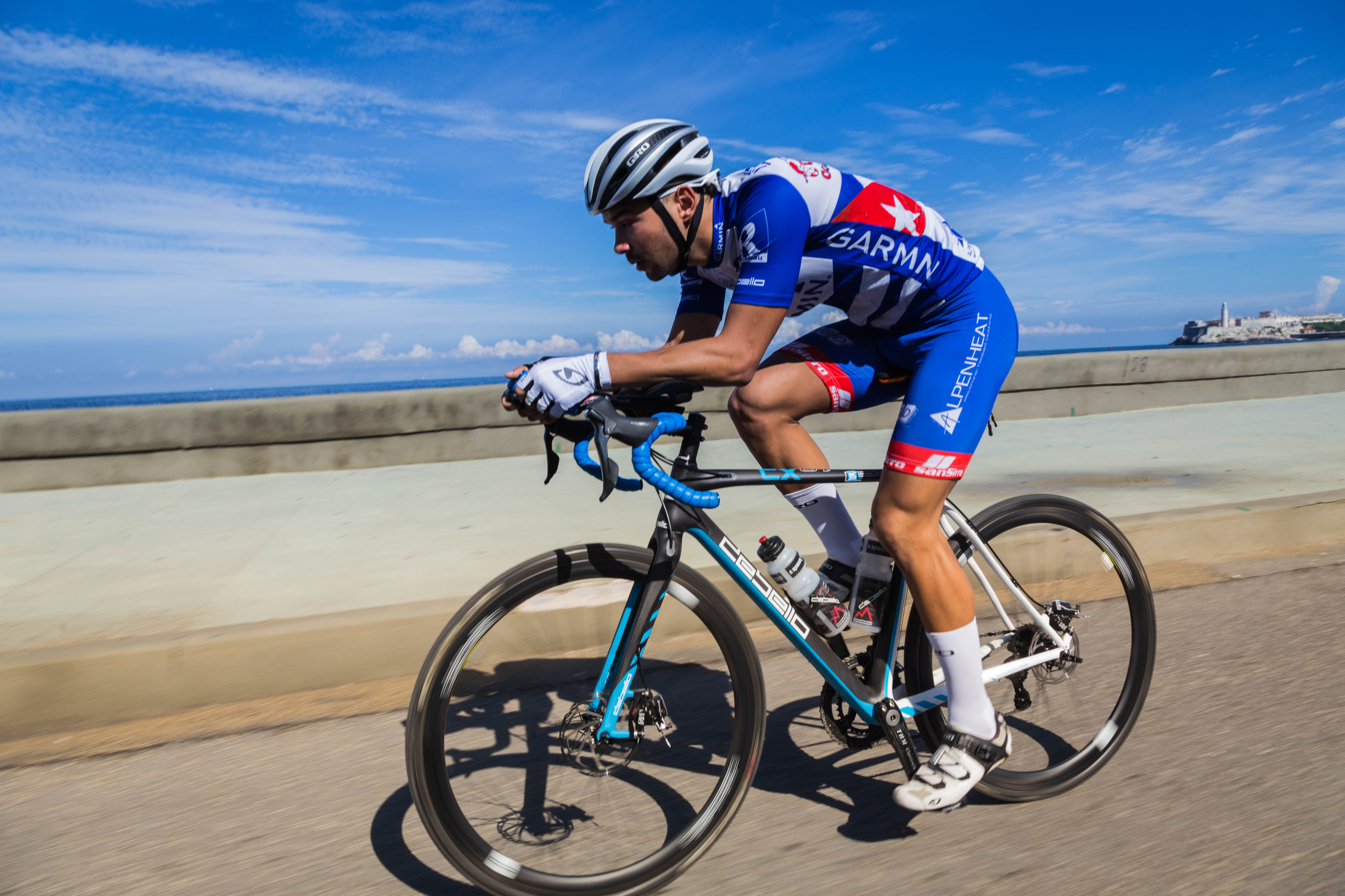 Jacob Zurl training in Havanna for his Project